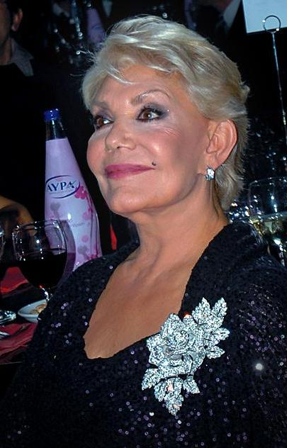 Marinella in Athinon Arena 2008. I cropped it for her wikipedia article Μαρινέλλα.